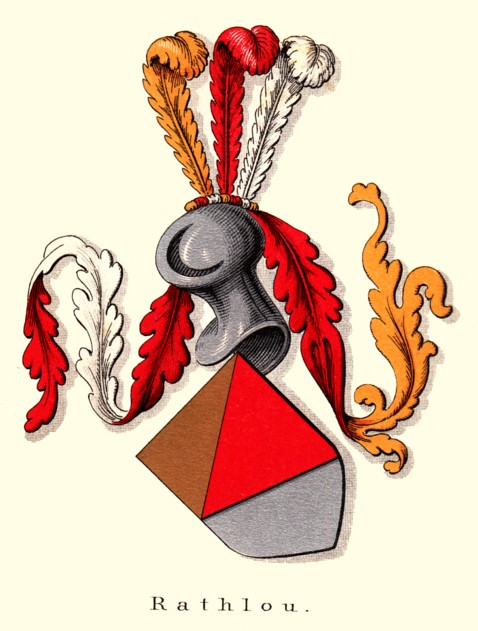 Coat of arms of the Rathlou family.